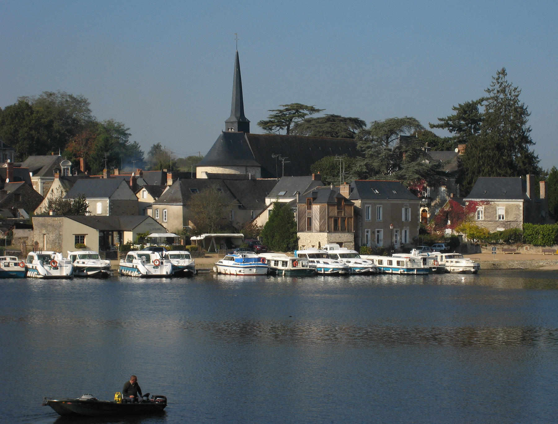 Grez-Neuville, community on the river Mayenne in the département of Maine-et-Loire in the Region Pays de la Loire in France; view across the river at Grez.